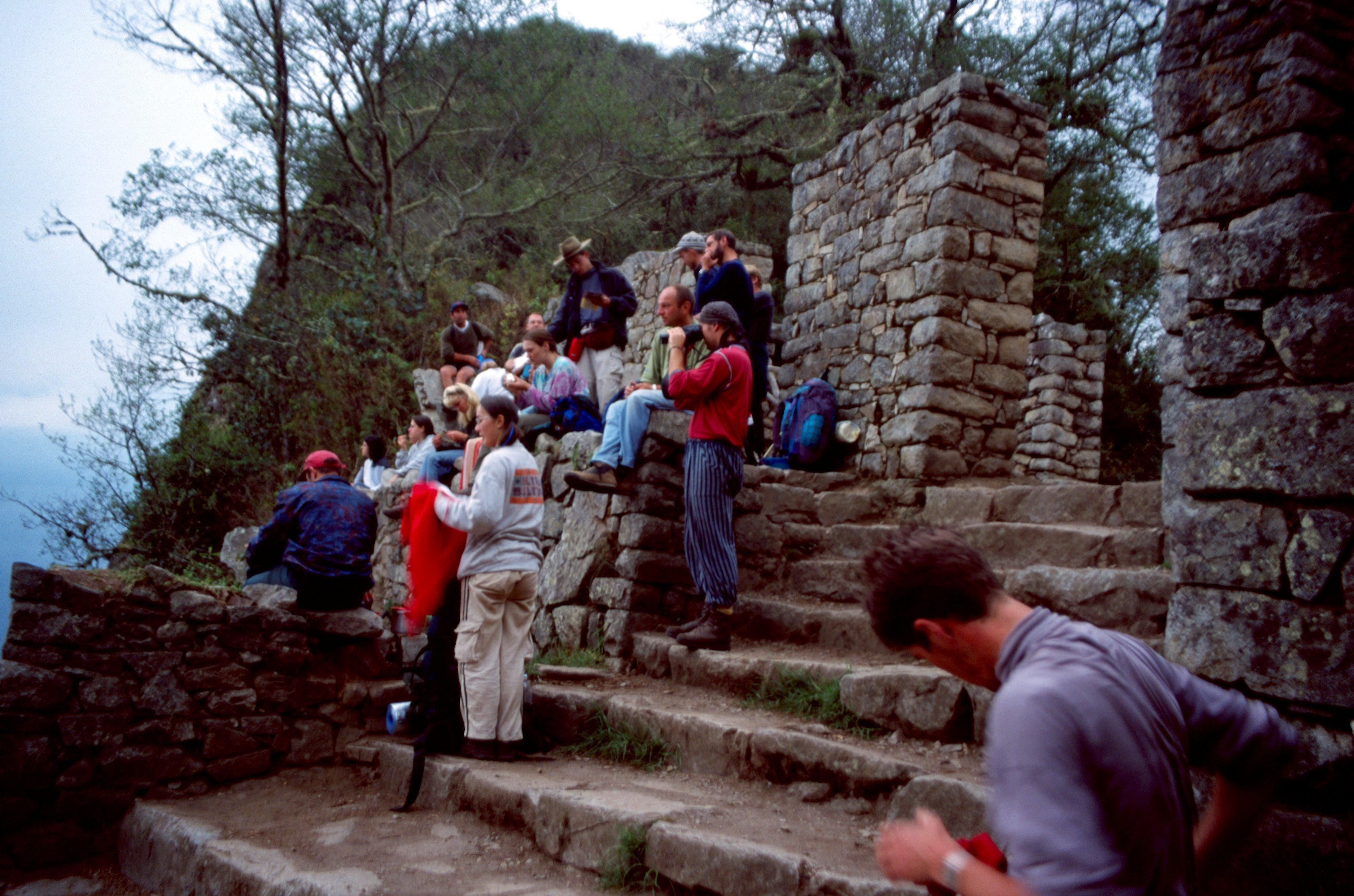 Inca trail from Cusco to Machu Picchu in Perú. Day 4. People waiting sunrise in Inti Punku before enter in Machu Picchu.